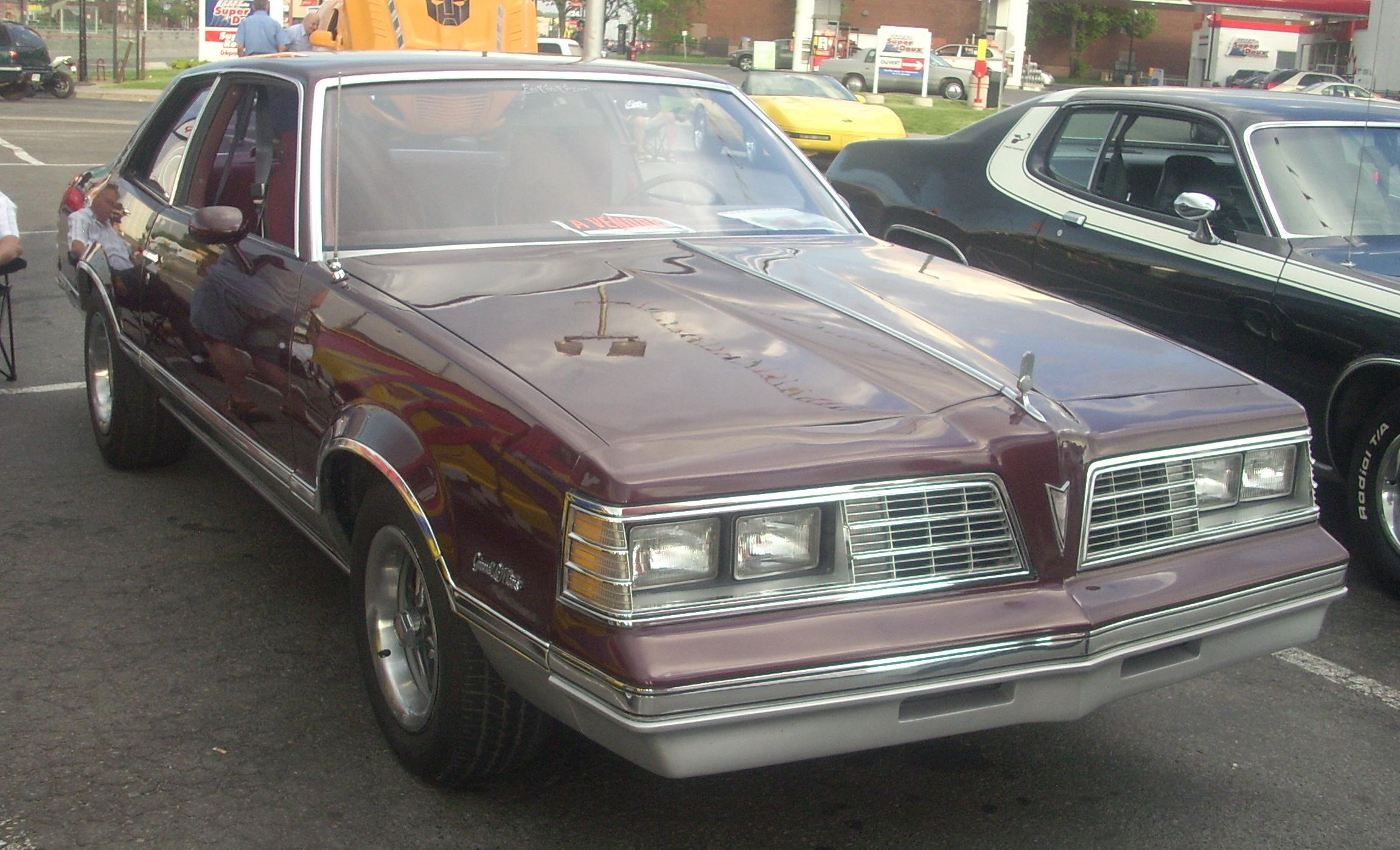 1981 Pontiac Grand LeMans photographed in Montreal, Quebec, Canada at Gibeau Orange Julep.